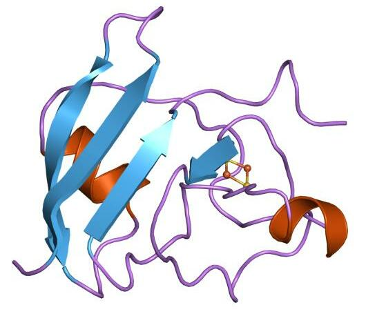 Cartoon representation of the molecular structure of protein registered with 4fxc code.